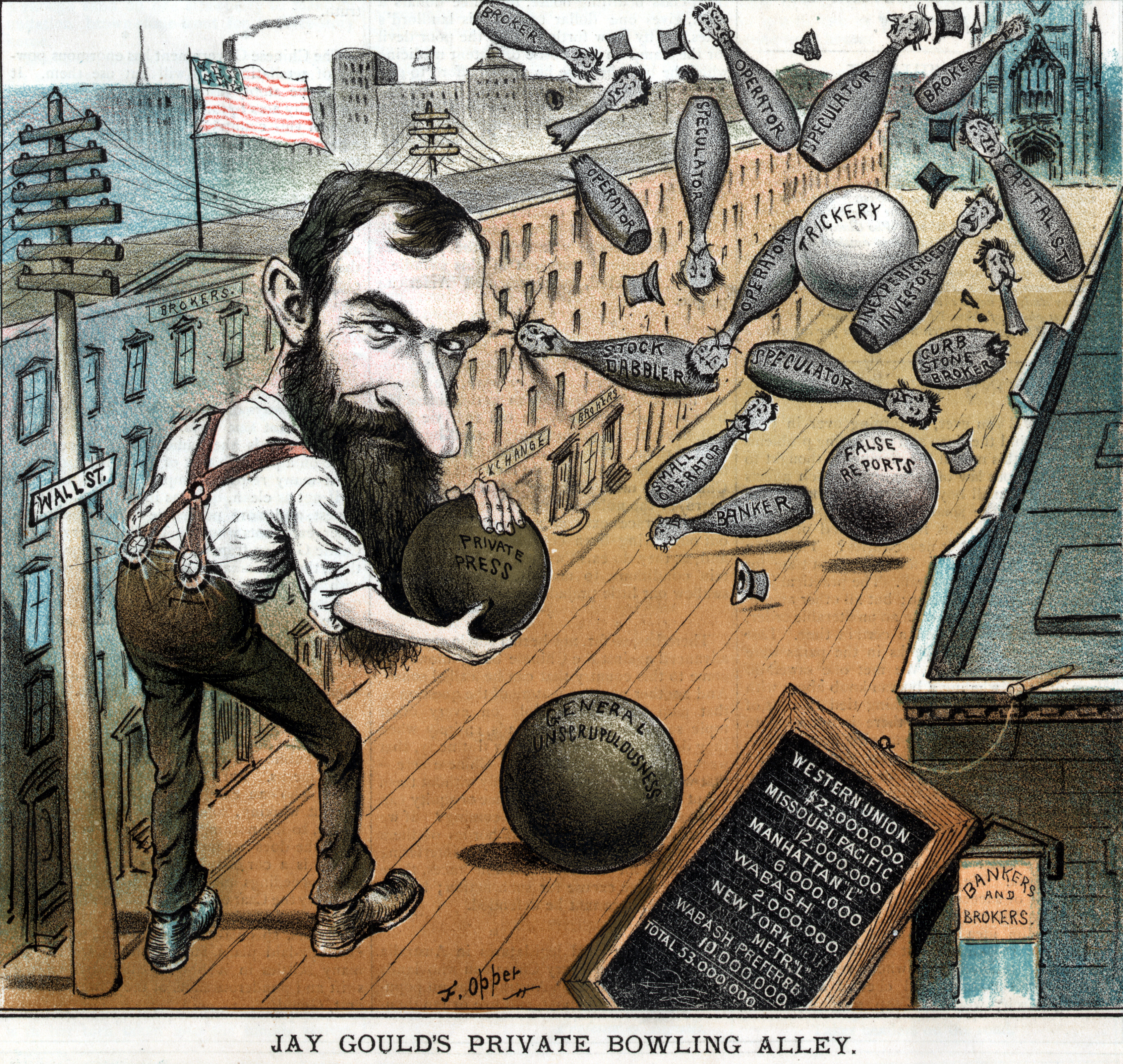 Cartoon, "Jay Gould's Private Bowling Alley." Financier and stock speculator Jay Gould is depicted on Wall Street, using bowling balls titled "trickery," "false reports," "private press" and "general unscrupulousness" to knock down bowling pins labeled as "operator," "broker," "banker," "inexperienced investor," etc. A slate shows Gould's controlling holdings in various corporations, including Western Union, Missouri Pacific Railroad, and the Wabash Railroad.